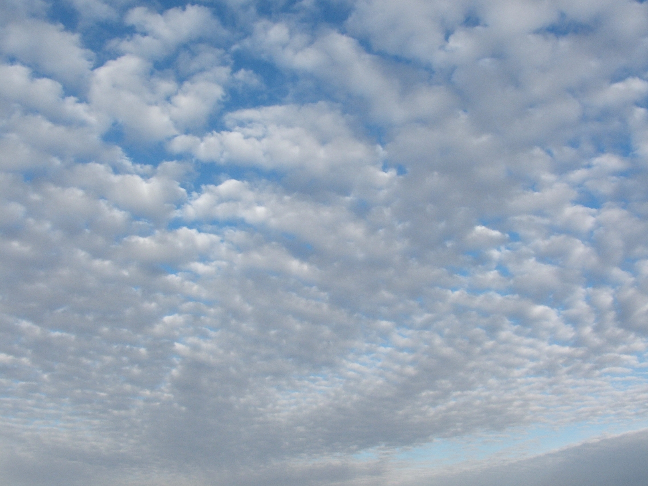 Clouds over Grand Junction, Colorado; most likely altocumulus